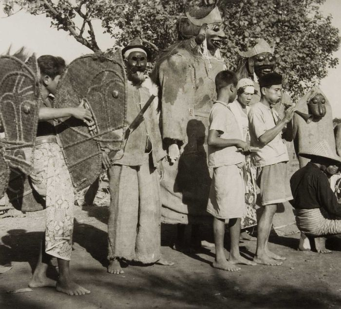 Celebrations by fishermen at Wiradesa